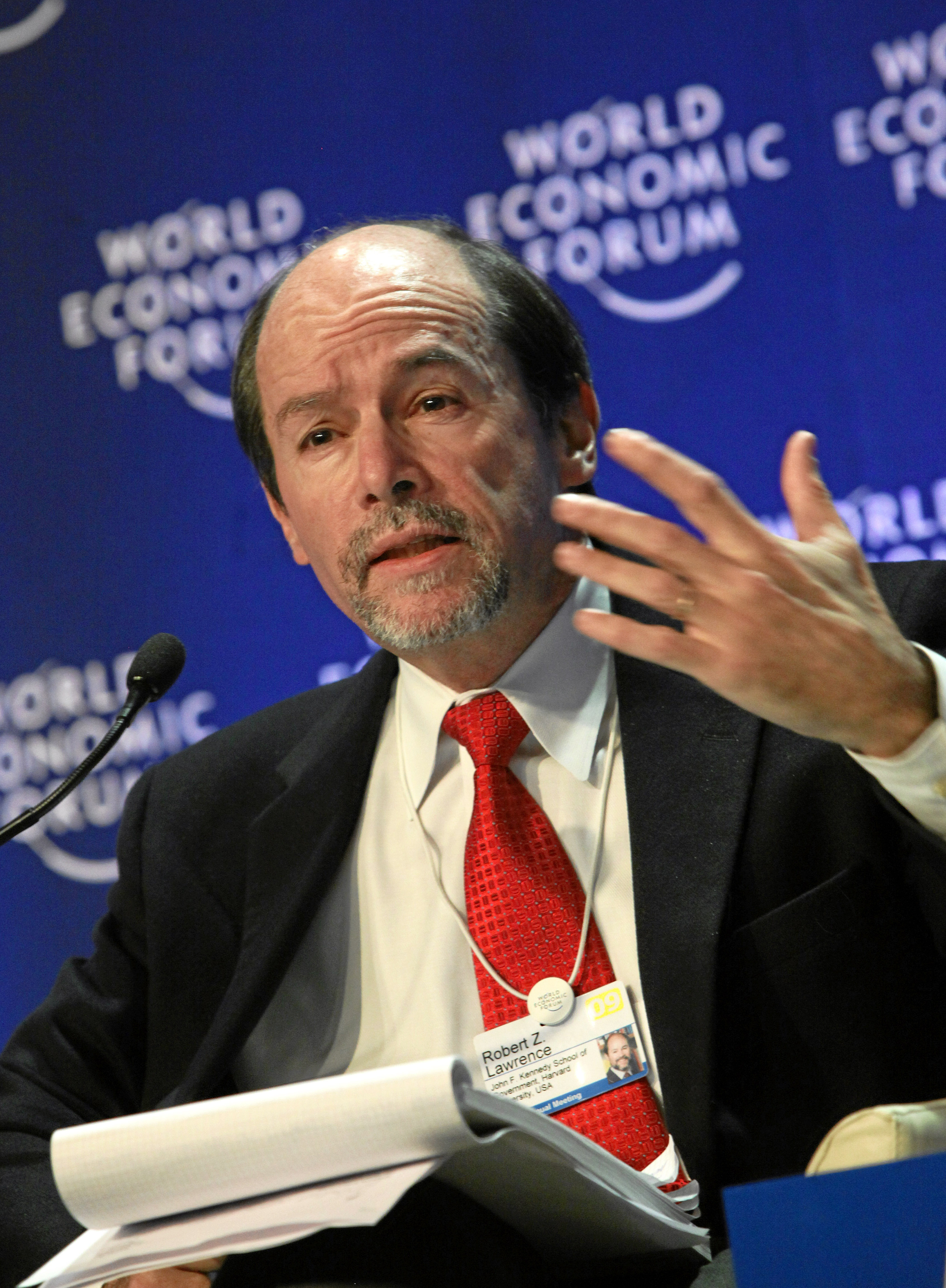 DAVOS-KLOSTERS/SWITZERLAND, 31JAN09 - Robert Z. Lawrence, Albert L. Williams Professor of Trade and Investment, John F. Kennedy School of Government, Harvard University, USA; Chair, Global Agenda Council on Trade Facilitation, talks to the participants during the session 'The Fight against Protectionism' at the Annual Meeting 2009 of the World Economic Forum in Davos, Switzerland, January 31, 2009. Copyright by World Economic Forum by Monika Flueckiger